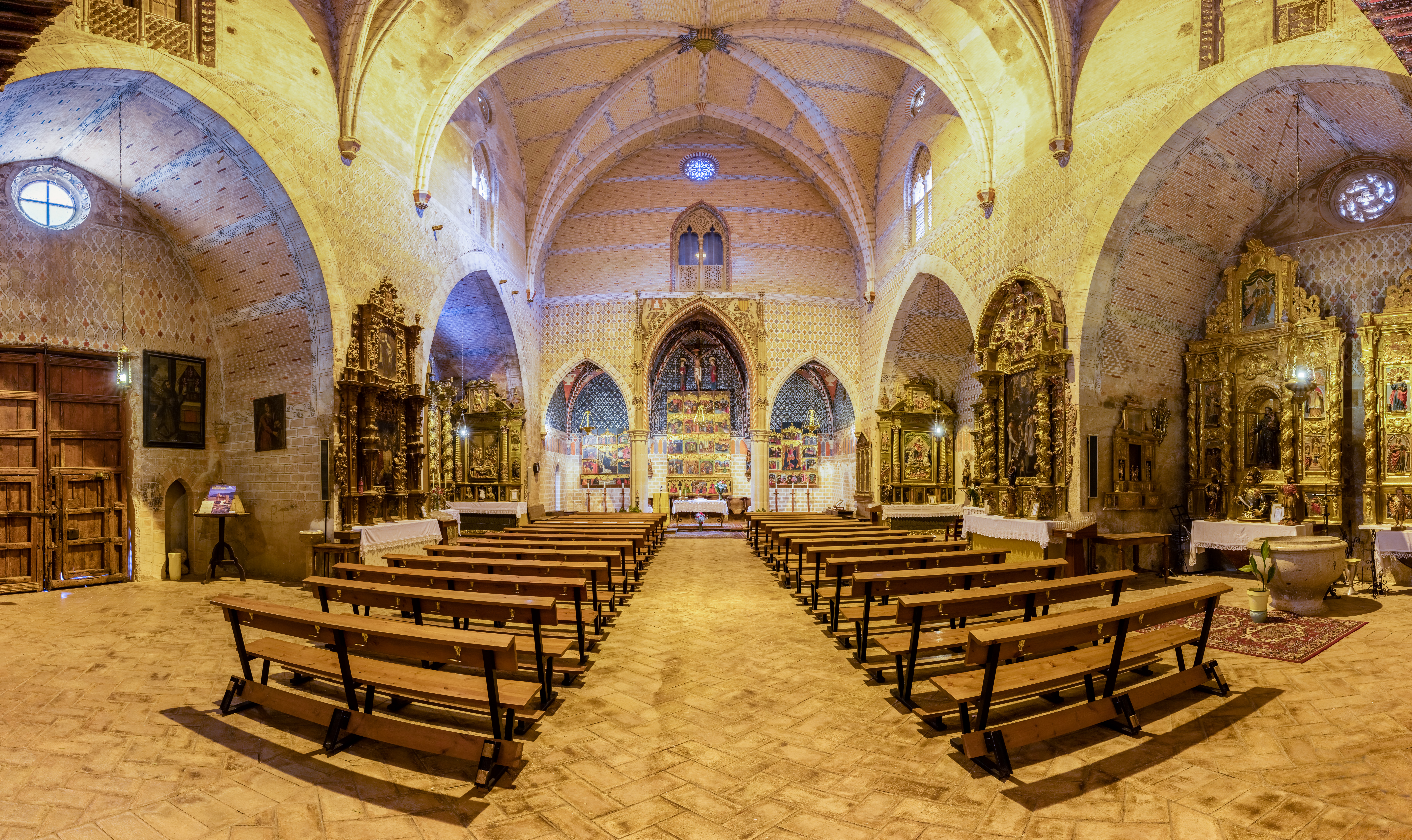 Church of St Felix, Torralba de Ribota, Zaragoza, Spain